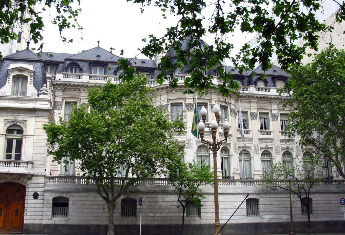 Brazilian Embassy in Buenos Aires.